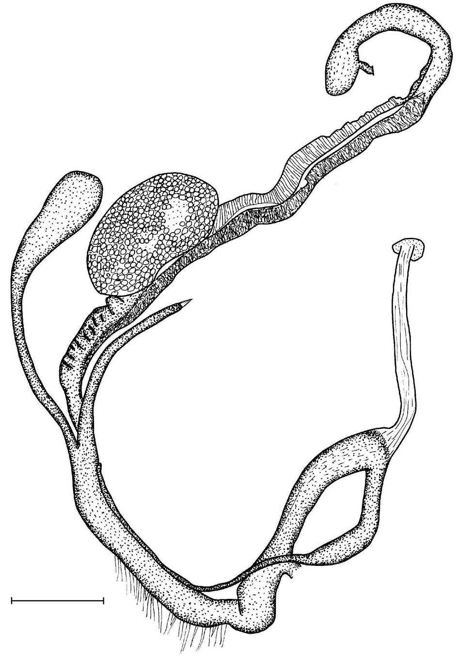 Drawing of a reproductive system of Halongella schlumbergeri (Morlet, 1886). Locality: “Specimen1”. Locality information: Hải Phòng Province, Cát Bà Island, behind cemetery of Gia Luận village, 20°50.092'N, 106°58.560'E, leg. Hemmen, Ch. & J., 10.04.2011. Scale bar is 5 mm.